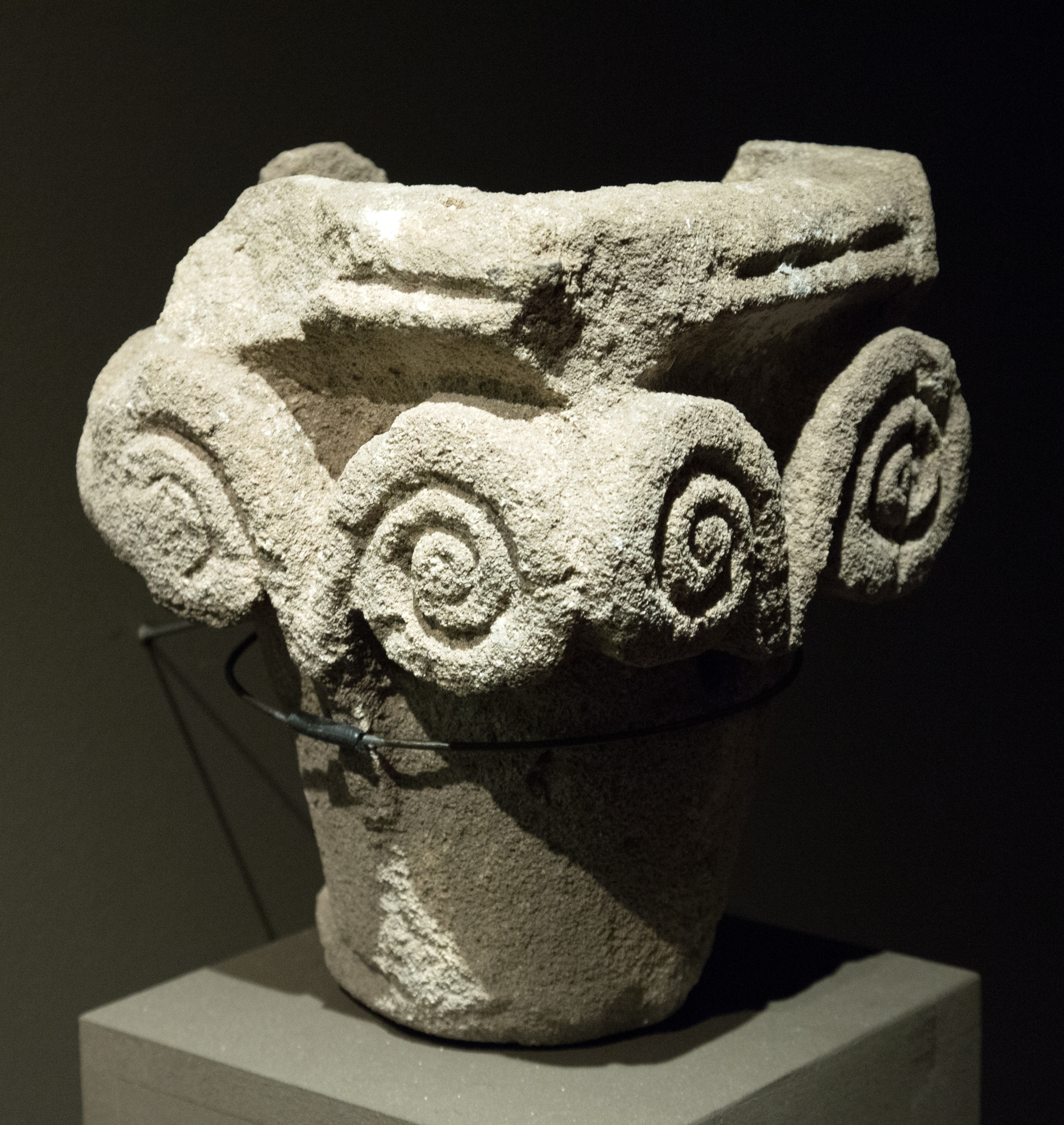 Romanesque capital from Zobor (Benedictine monastery near Nitra), 12th century. Nitra, Arch. Institute of the Academy of Science of the Slovak Republic.